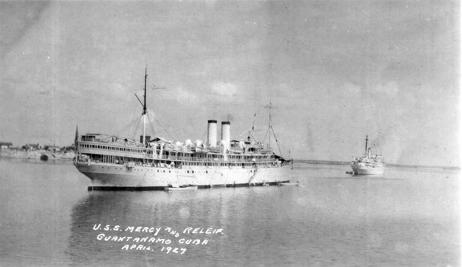 USS Mercy and Relief, Guantanamo, Cuba, April 1927